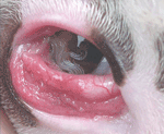 Figure 1 Massive Thelazia callipaeda eye infection in a dog.